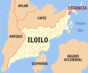 Map of Iloilo showing the location of Estancia